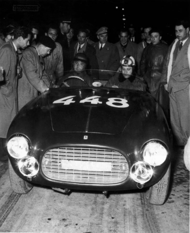 Race entry #448 at Giro di Sicilia on 9 March 1952 was the 1952 Ferrari 225 Sport Spyder Vignale s/n 0154ED driven in its possibly first race by its owner Vittorio Marzotto and Otello Marchetto to a did not finish due to overheating.[1] The nicely dressed gentleman on the right looks like his brother Giannino Marzotto.